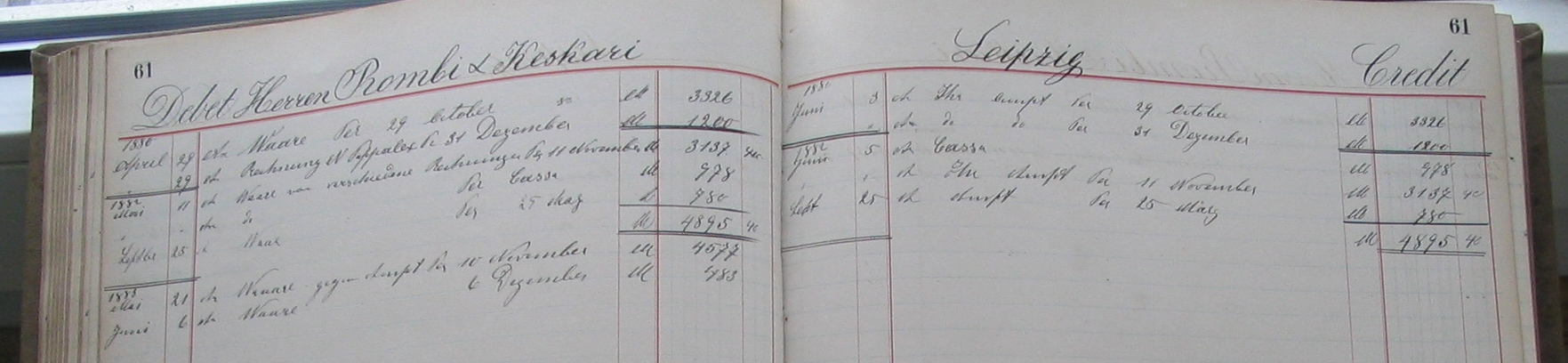 Hauptbuch des Leipziger Rauchwarenhändlers Dedo, 1986-1975 Herren Rombi & Keskari, Leipzig Author Buchhaltung der Firma Dedo, Leipzig Title Ledger of the fur trader Dedo from Leipzig, 1876-1885 Year of publication 1876 (erster Eintrag) Place of publication Leipzig Language German Source Collection Kuhn Permission (Reusing this file) This image (or other media file) is in the public domain because its copyright has expired. This applies to Australia, the European Union and those countries with a copyright term of life of the author plus 70 years. You must also include a United States public domain tag to indicate why this work is in the public domain in the United States. Note that a few countries have copyright terms longer than 70 years: Mexico has 100 years, Colombia has 80 years, and Guatemala and Samoa have 75 years, Russia has 74 years for some authors. This image may not be in the public domain in these countries, which moreover do not implement the rule of the shorter term. Côte d'Ivoire has a general copyright term of 99 years and Honduras has 75 years, but they do implement the rule of the shorter term. This file has been identified as being free of known restrictions under copyright law, including all related and neighboring rights.